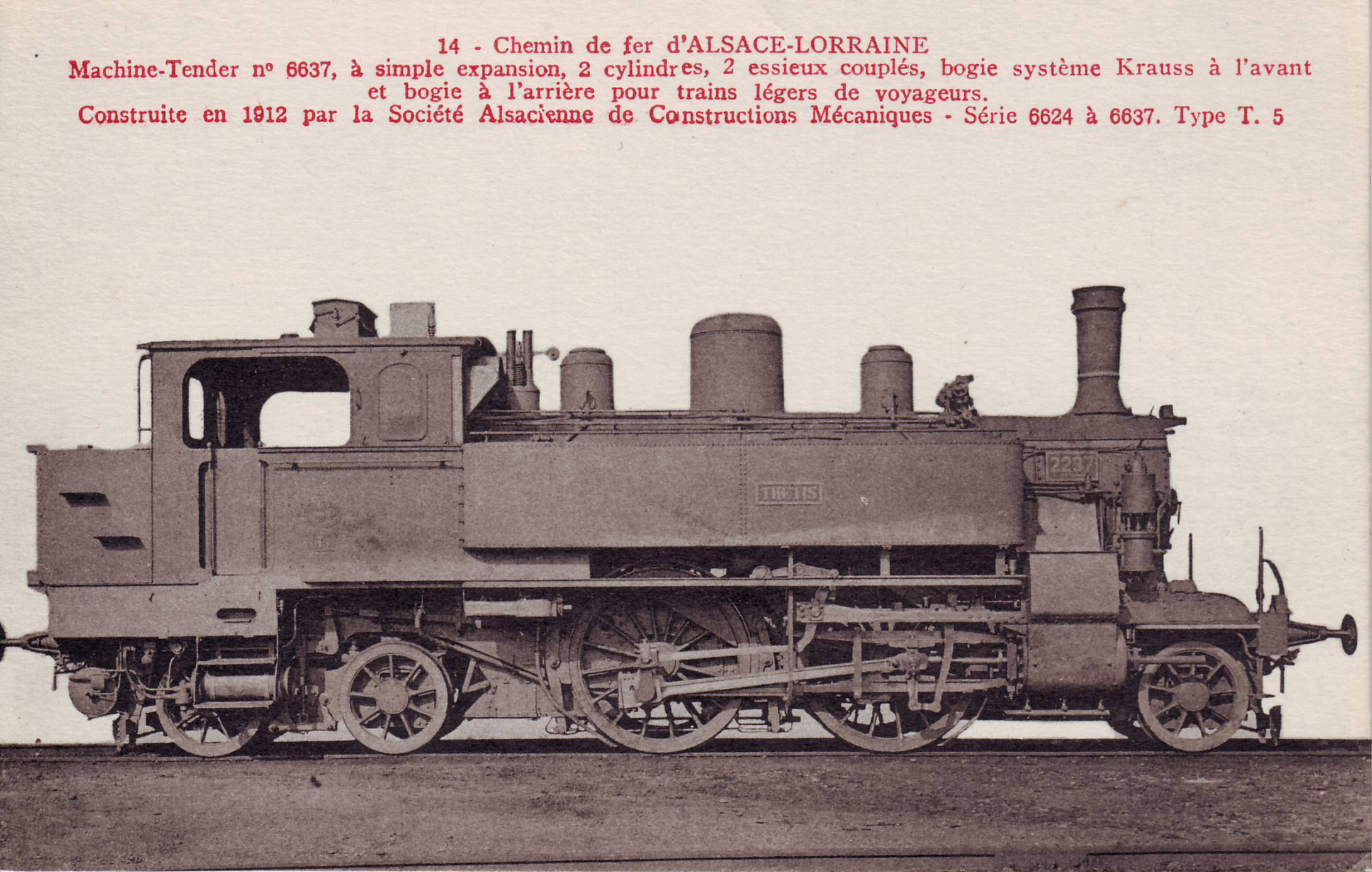 Steam locomotive T7 2237 (Alsace-Lorraine), then T5 6637 "Thetis" builded in 1911